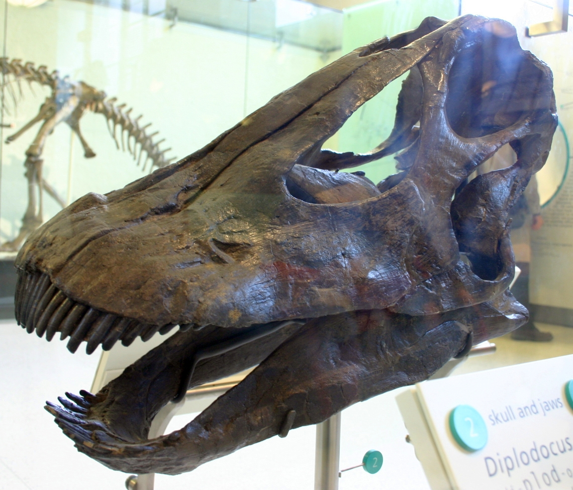 Galeamopus hayi skull (specimen AMNH 969), formerly referred to Diplodocus longus. Visit my blog at